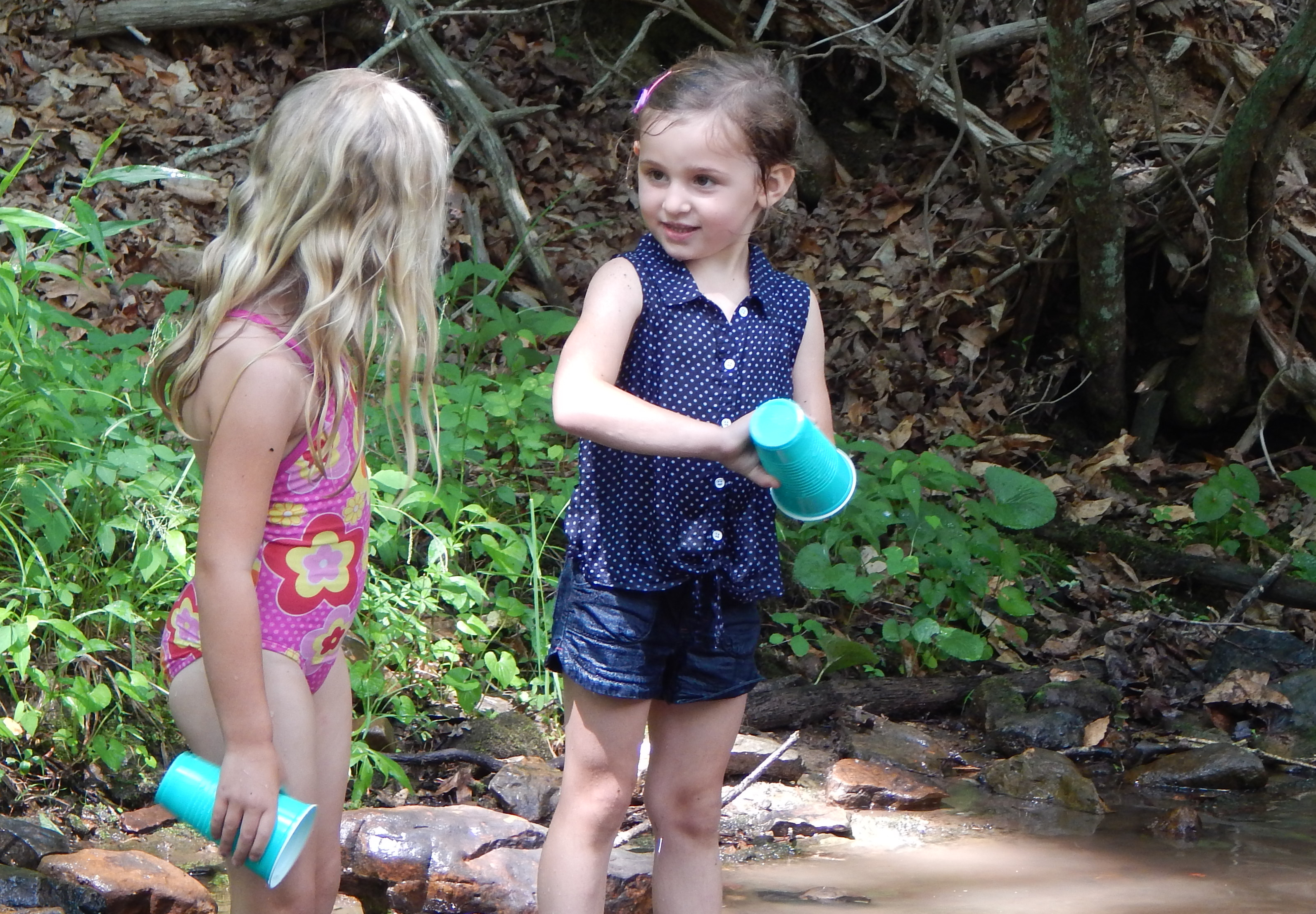 The park is always a good place to bring family and friends to enjoy a summer day.